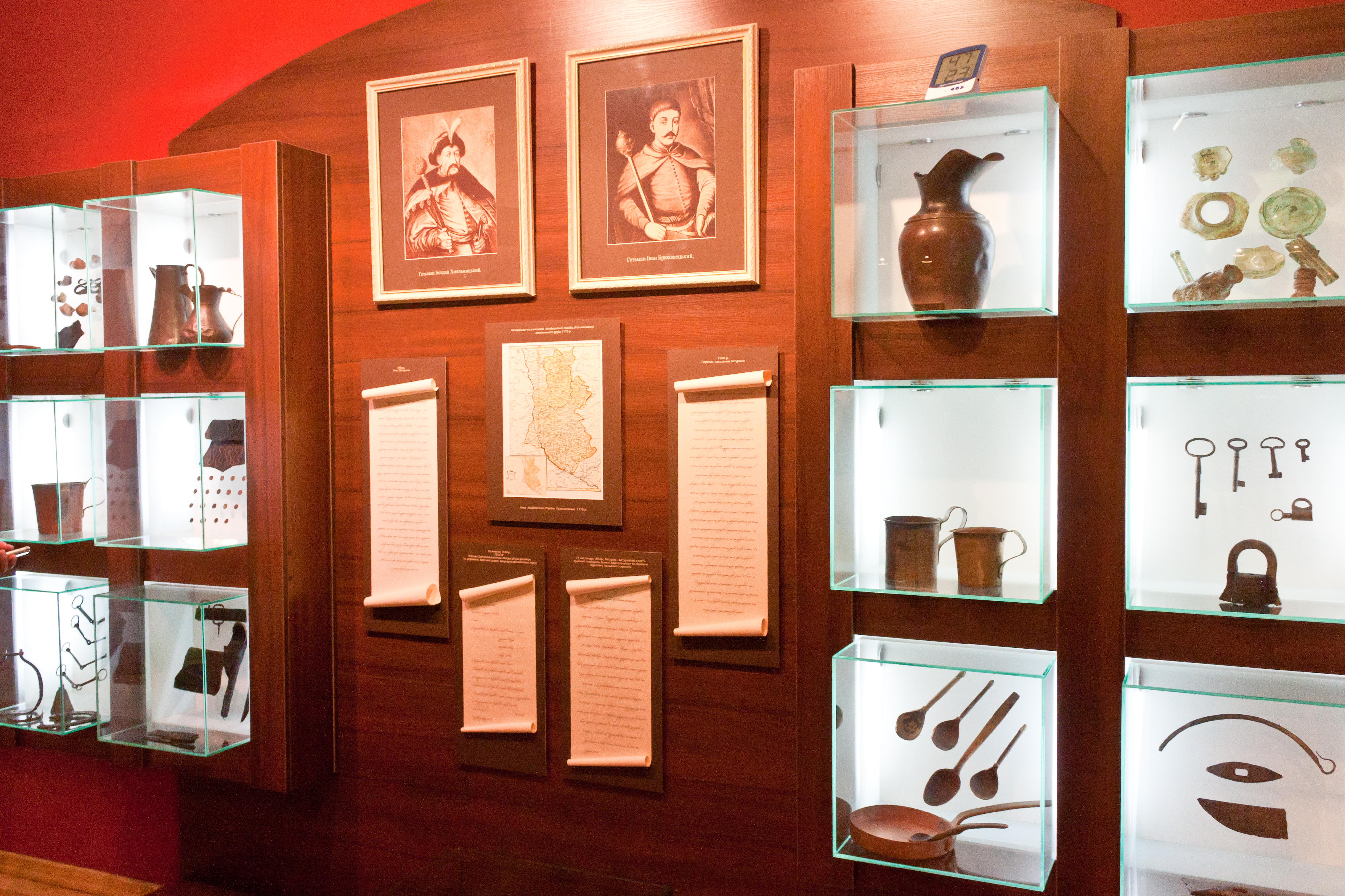 Exhibition in the History of Baturyn Museum (building of the Resurrection Parish School)